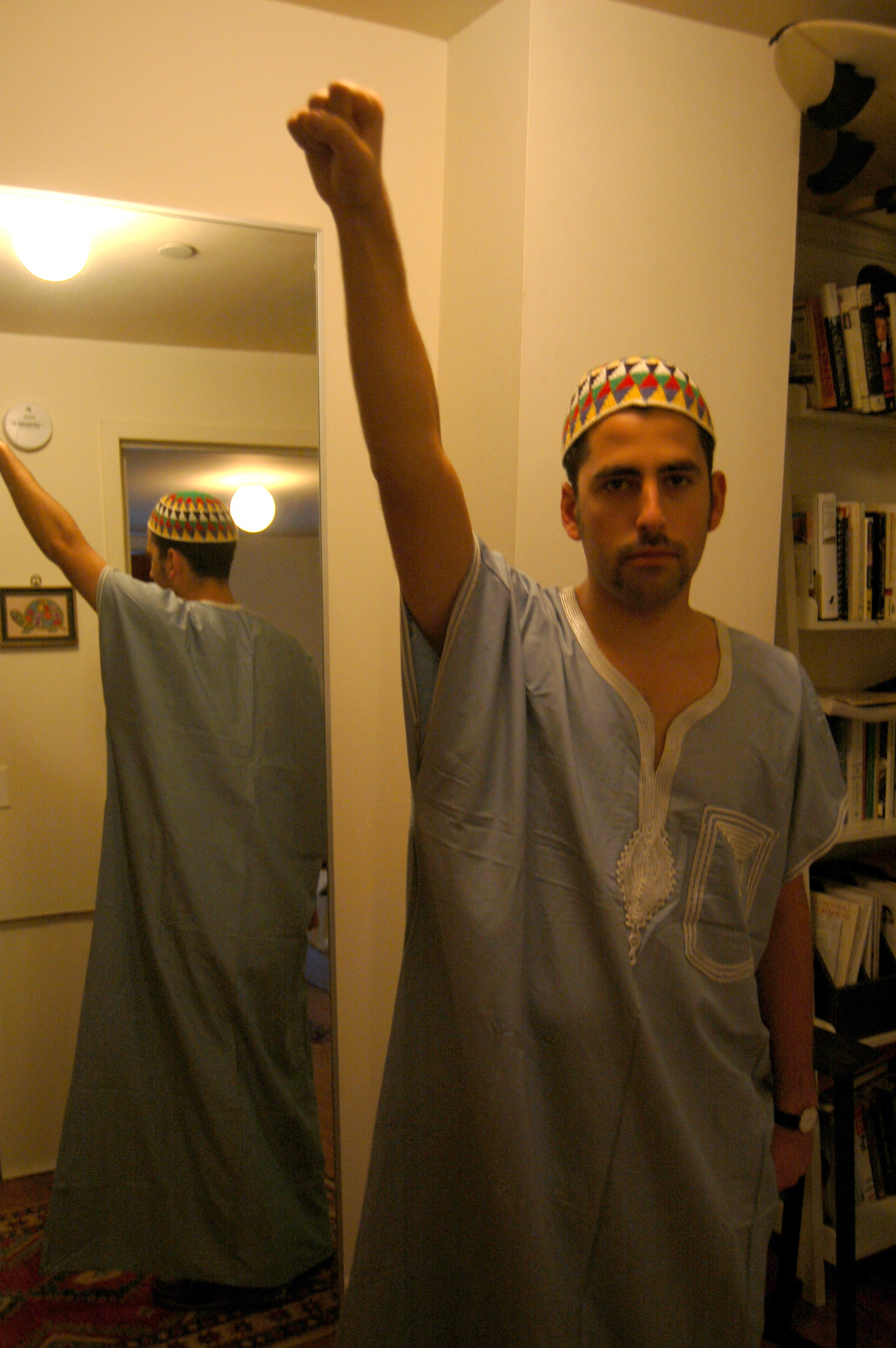 A man wearing a galabeya, a kind of tunic traditional in Egypt. Picture by Andrew Cole (uploader), subject is Jonathan Nadel.